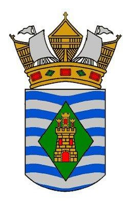 Coat of Arms of the municipality island of Vieques, Puerto Rico.